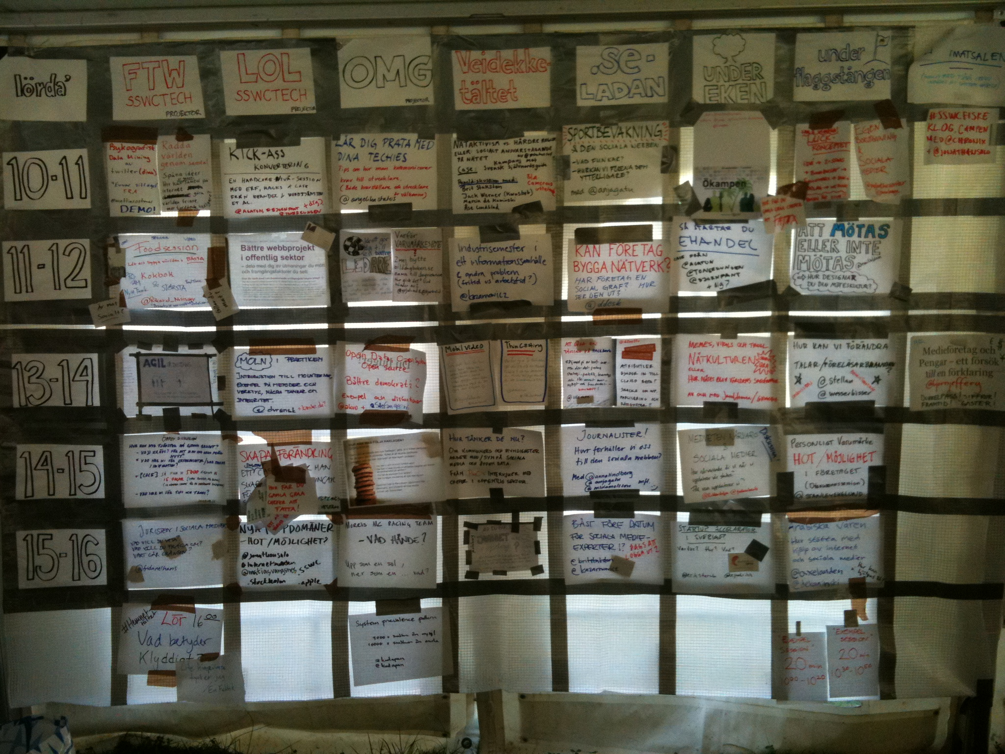 The Sweden Social Web Camp 2011 Saturday Unconference grid